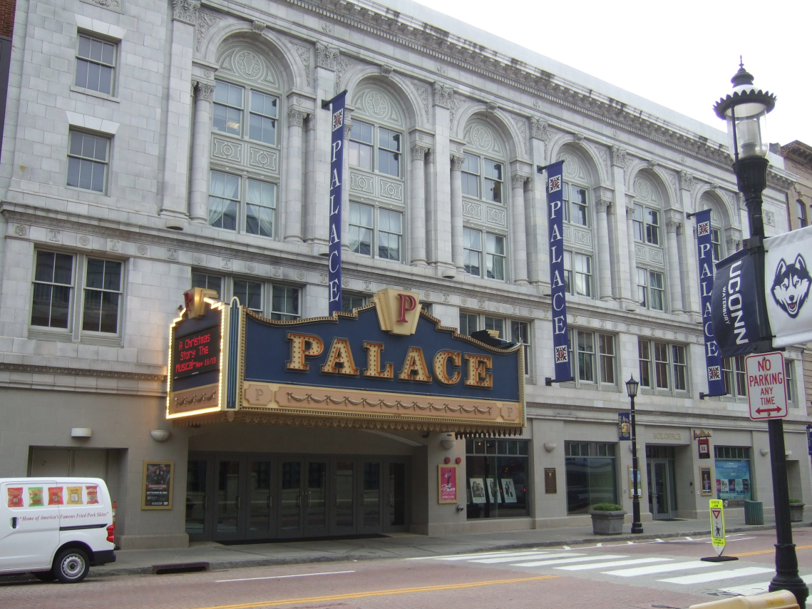 The Palace Theater Waterbury, Connecticut. The theater started out as a movie/vaudeville house by theatre magnate Sylvester Z. Poli in 1922. It was designed by the architect Thomas W. Lamb in a Second Renaissance Revival style. Over the years, the theater presented everything from silent films, to Big Band music, to rock concerts in the 1970s. Notable rock acts that performed at the theater include Alice Cooper, Frank Zappa, Pink Floyd, Bruce Springsteen, and Queen.